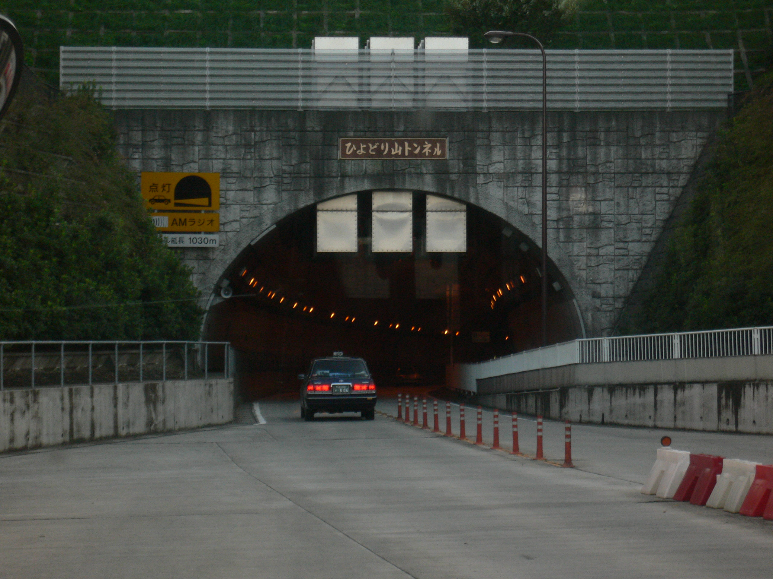 Hiyodoriyama tunnel (ひよどり山有料道路) , Hachiōji C, Tokyo M.